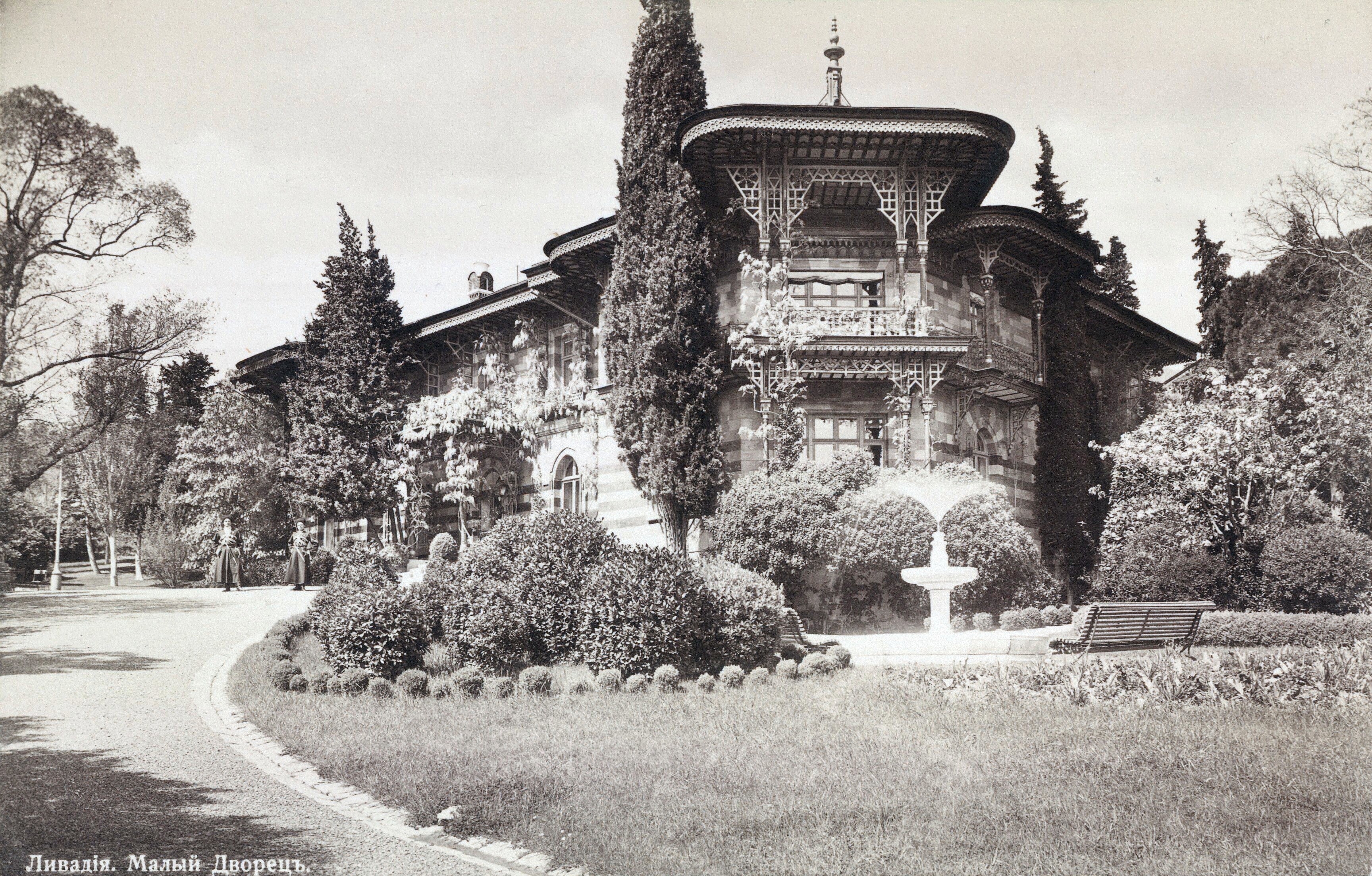 Little Livadiya palace. Destroyed during World War, in 1943-44.